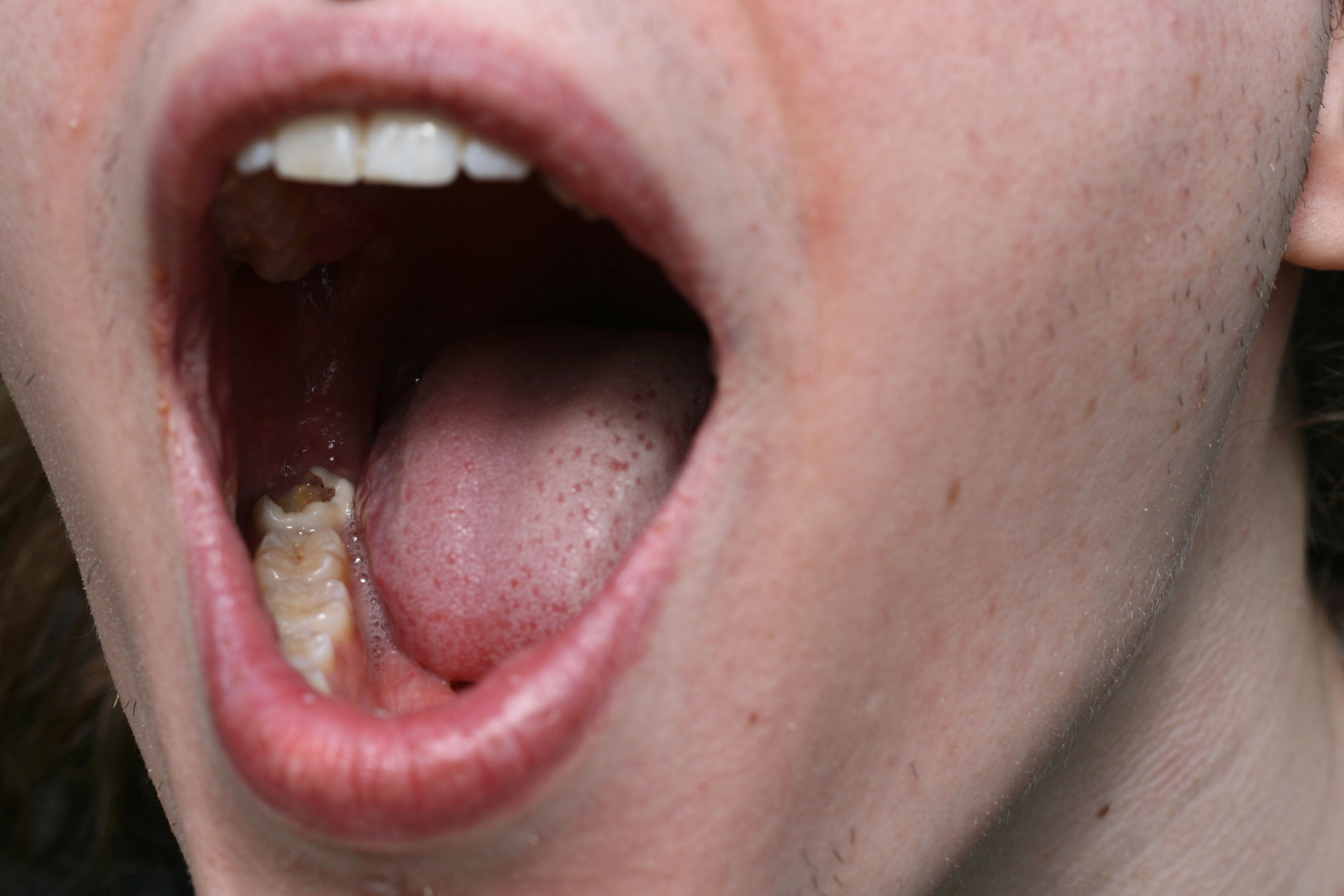 A badly deteriorated wisdom tooth.